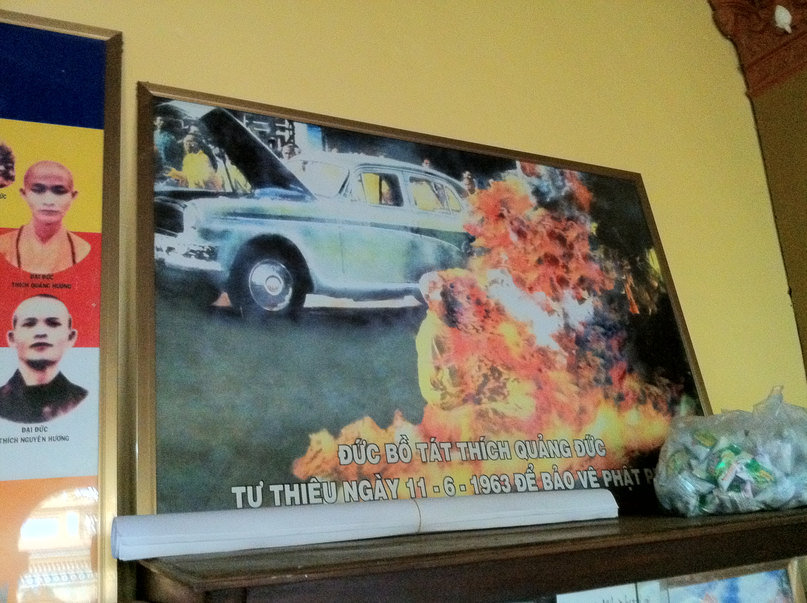 A tribute to Thích Quảng Đức found in a pagoda in Mỹ Tho, Vietnam.